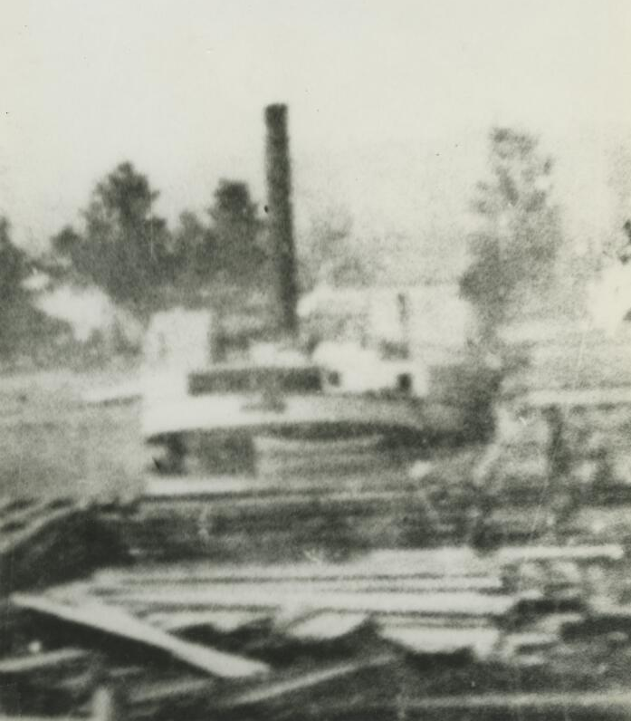 The steamer Lotta Bernard before she sank